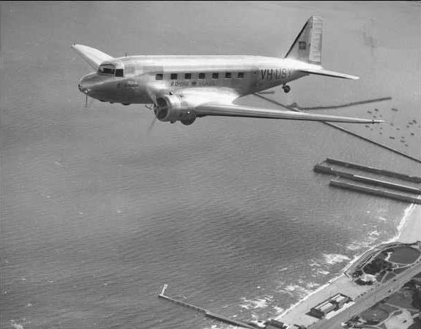 Douglas DC-2 airliner VH-USY "Bungana" purchased by Holymans Airways in 1936. The aircraft was included in the newly formed ANA fleet with the amalgamation of Holymans and Adelaide Airways in November 1936. Bungana made a record trip from Adelaide to Melbourne in March, 1937.